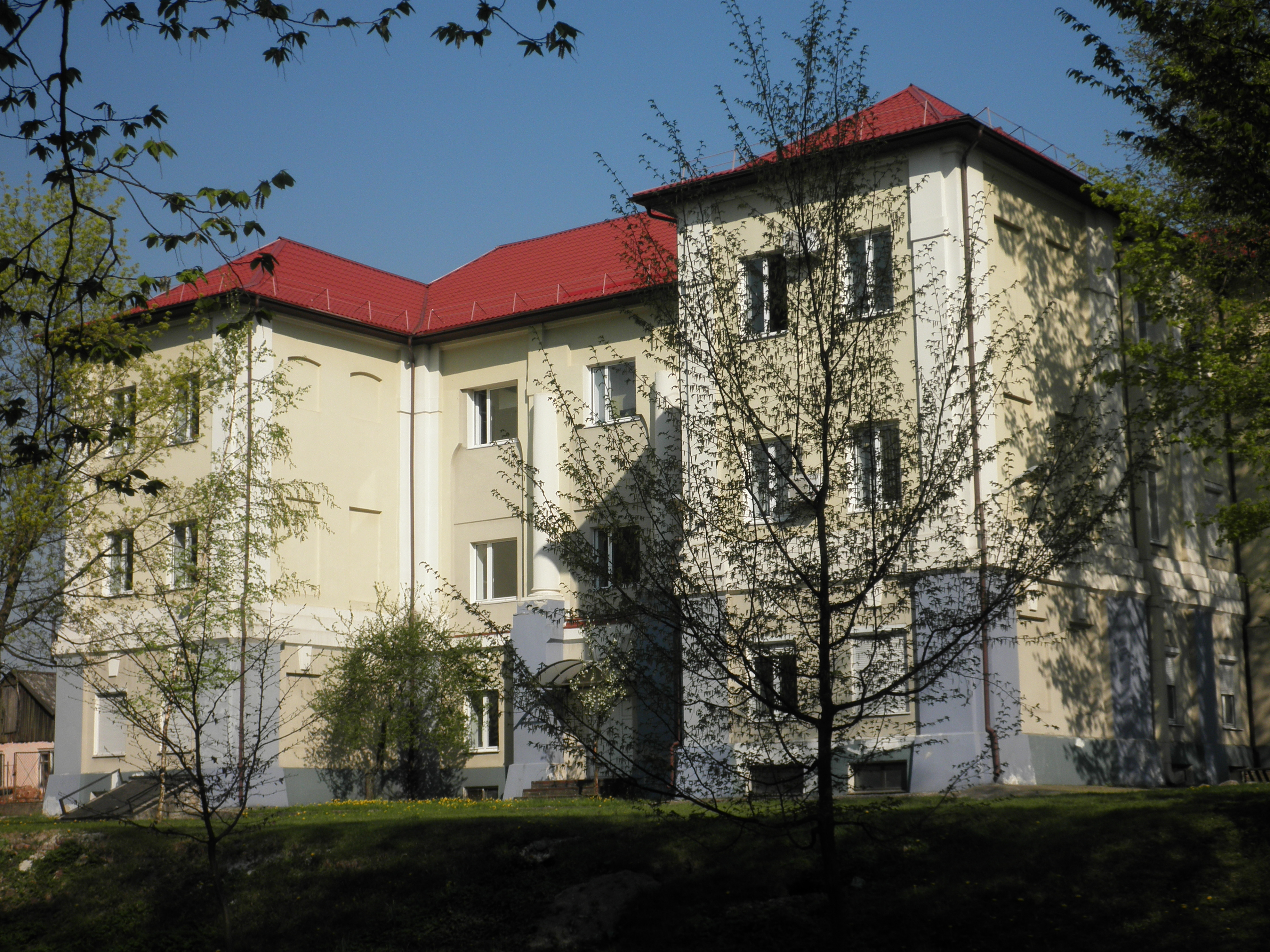 Castle Schloss Holstein in Kaliningrad in Russia